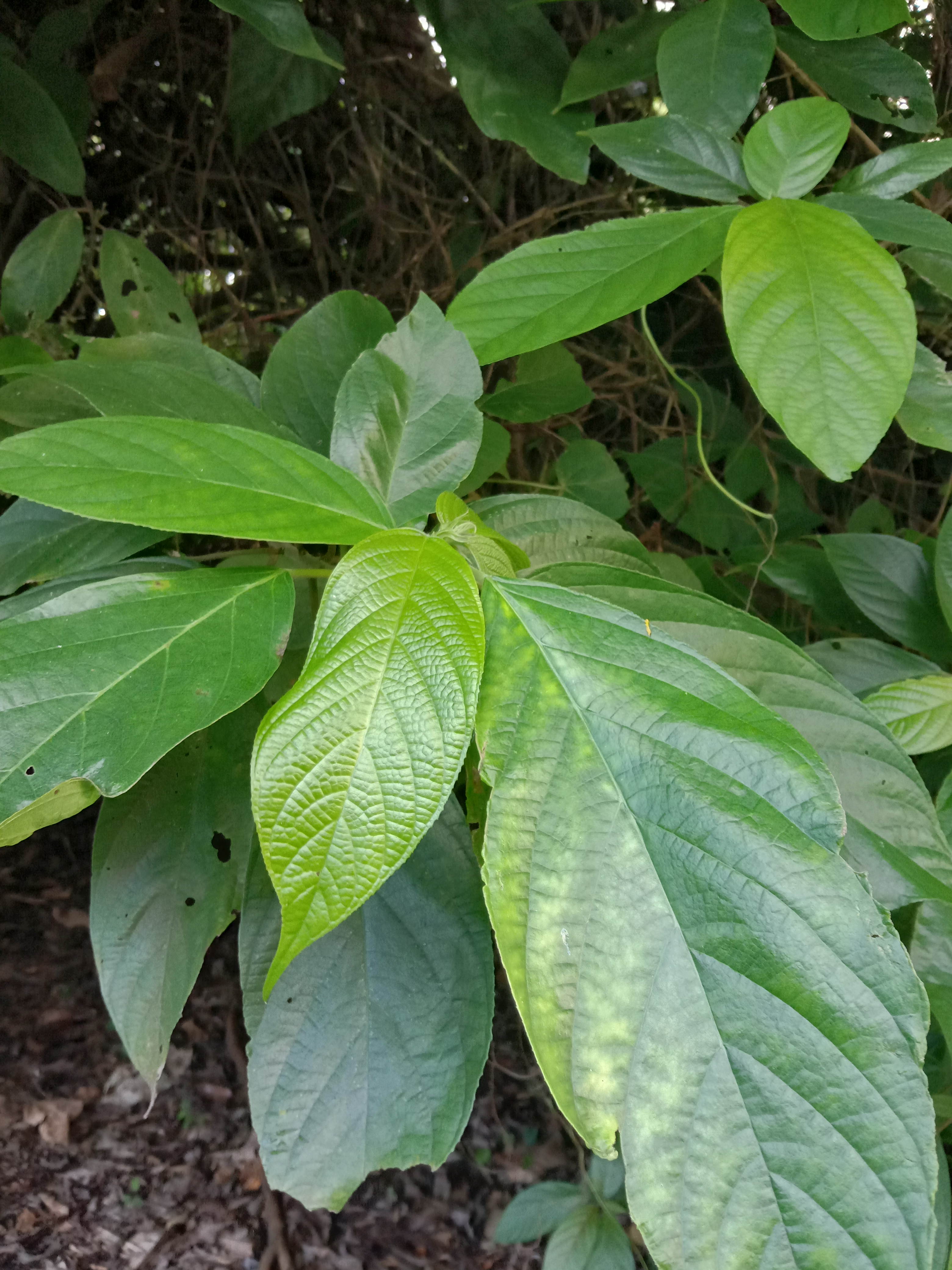 daun jilat dari kampung kabonea kabupaten kepulauan yapen